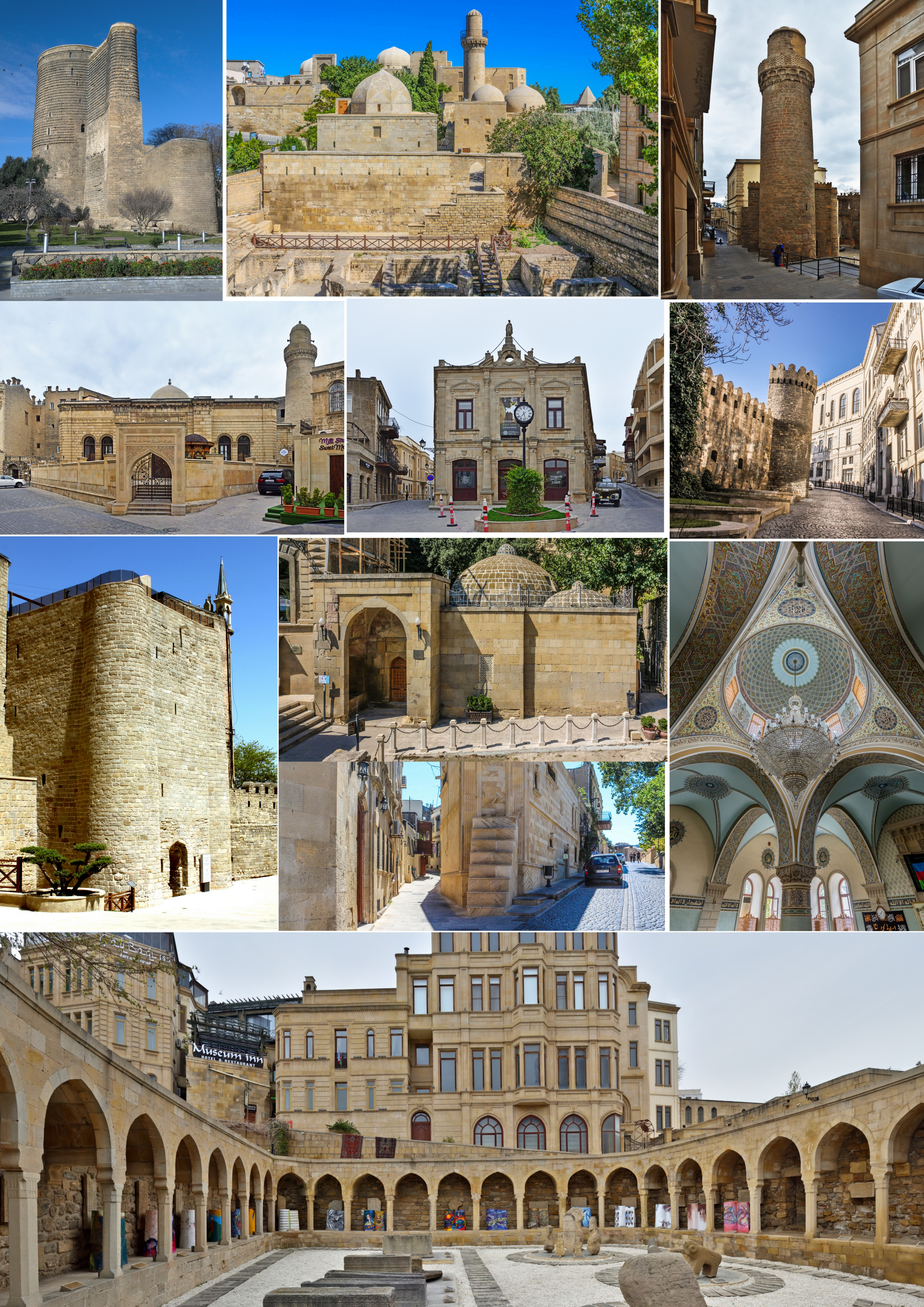 Own work from files of commons